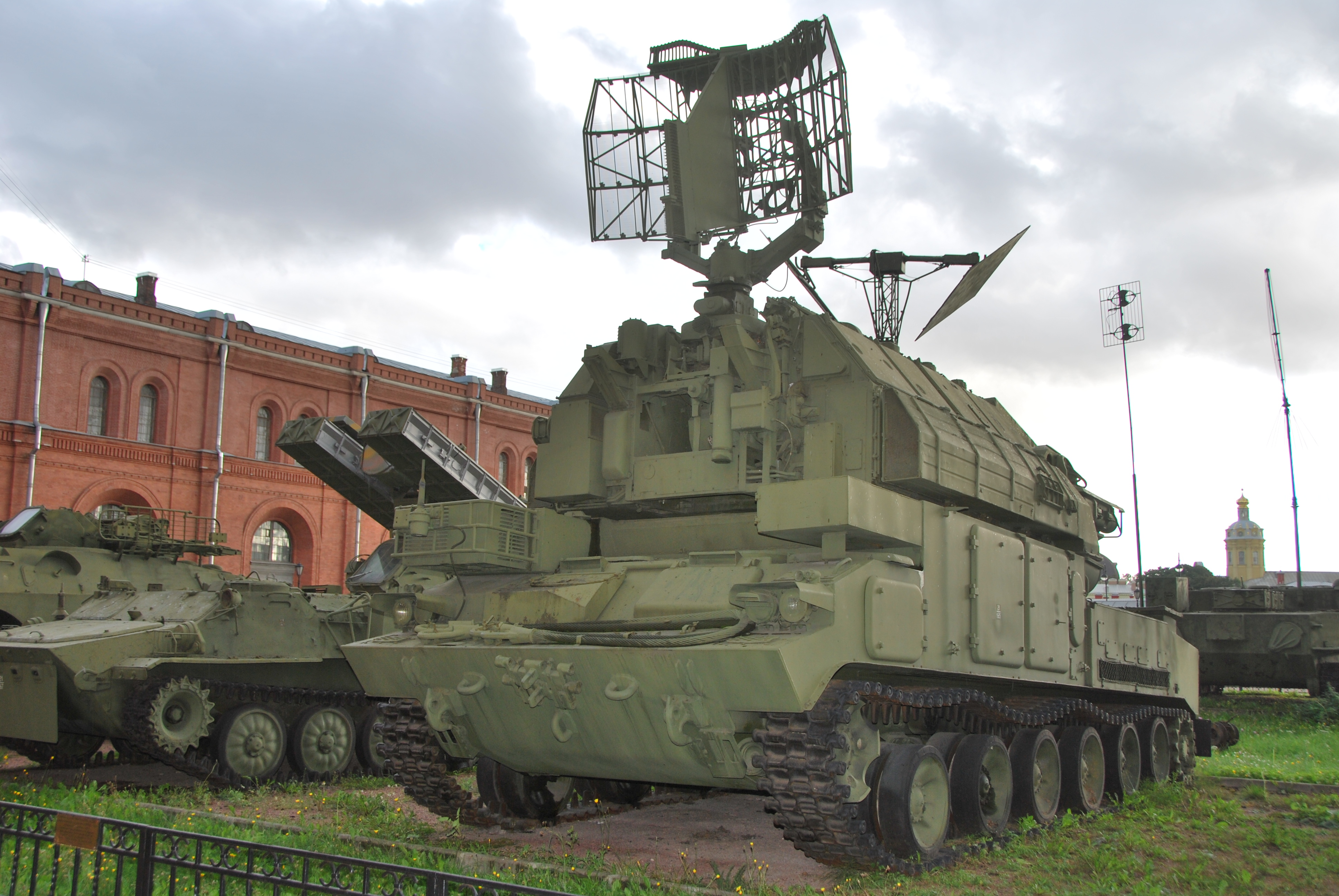 A 9A330 Transporter-Erector-Launcher and Radar with 9M330 missiles of the surface to air missile complex 9K330 «Tor» in Saint Petersburg Artillery museum